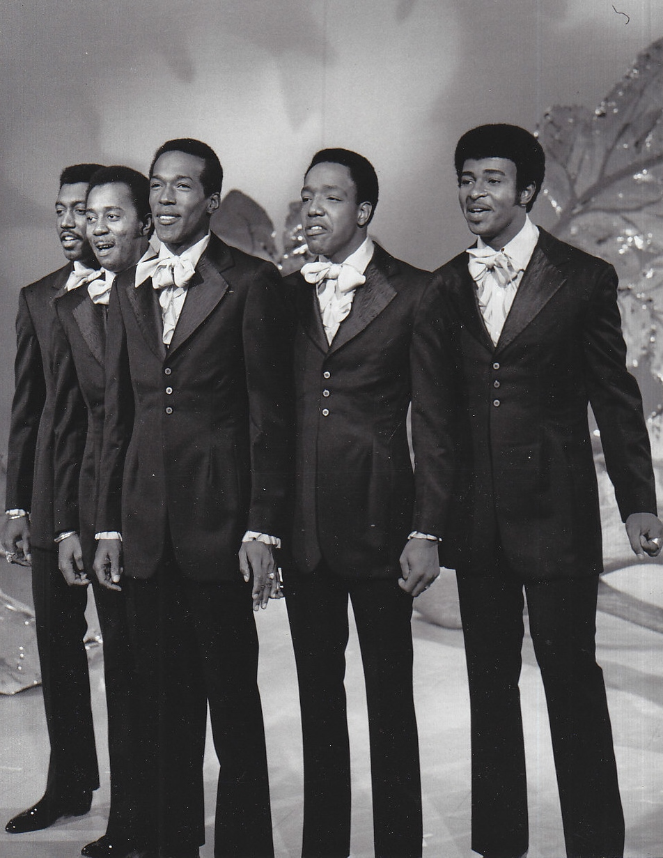 1969 Press Publicity Photograph 8" X 10" Original publicity still supplied by Bernie Ilson, Inc. / Publicity for Motown Records & The Ed Sullivan Show Left to right: Otis Williams, Melvin Franklin, Eddie Kendricks, Paul Williams, and Dennis Edwards